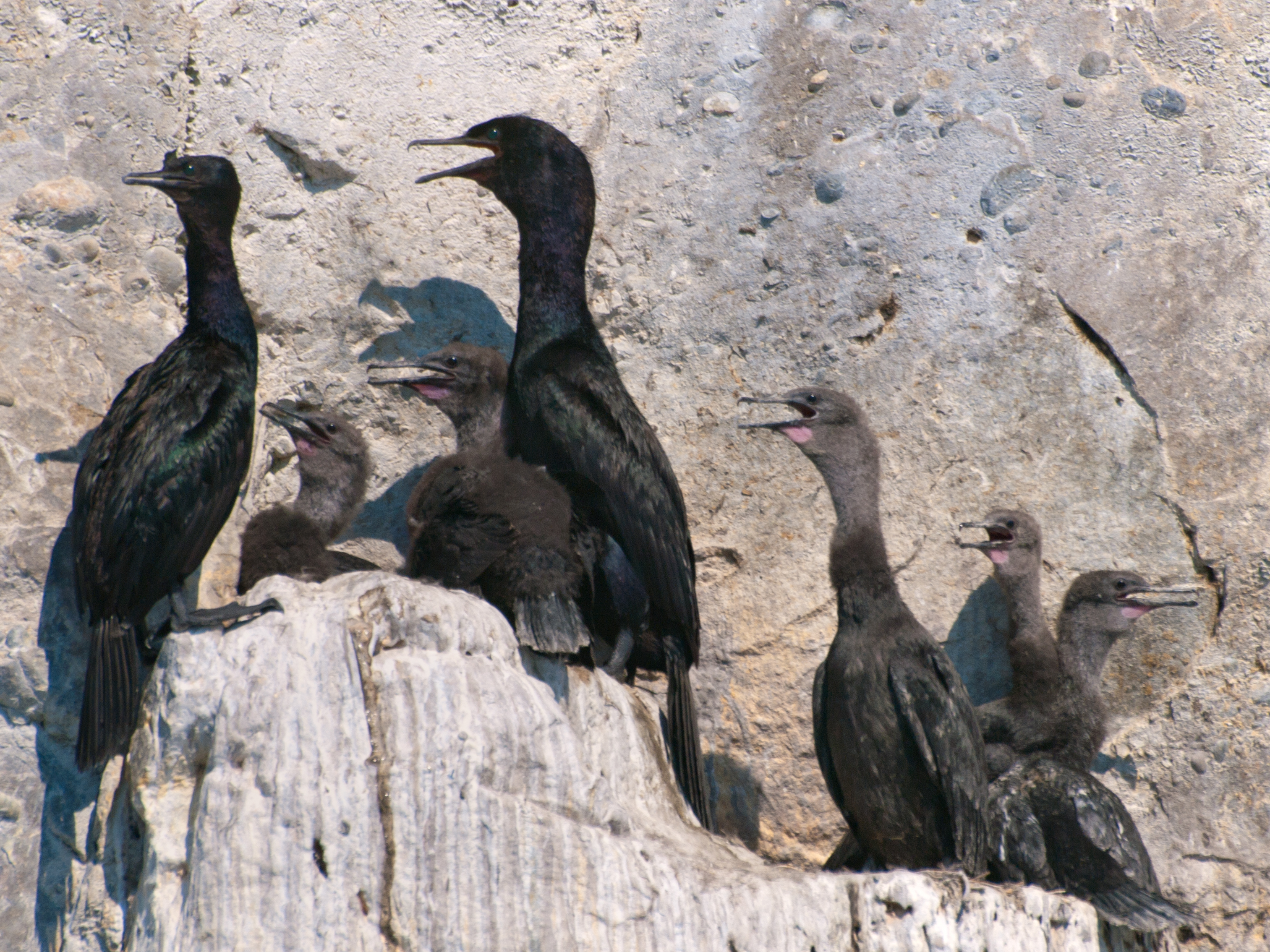 Phalacrocorax pelagic us in a small marine ecological reserve/sanctuary near Vancouver Island, B.C.